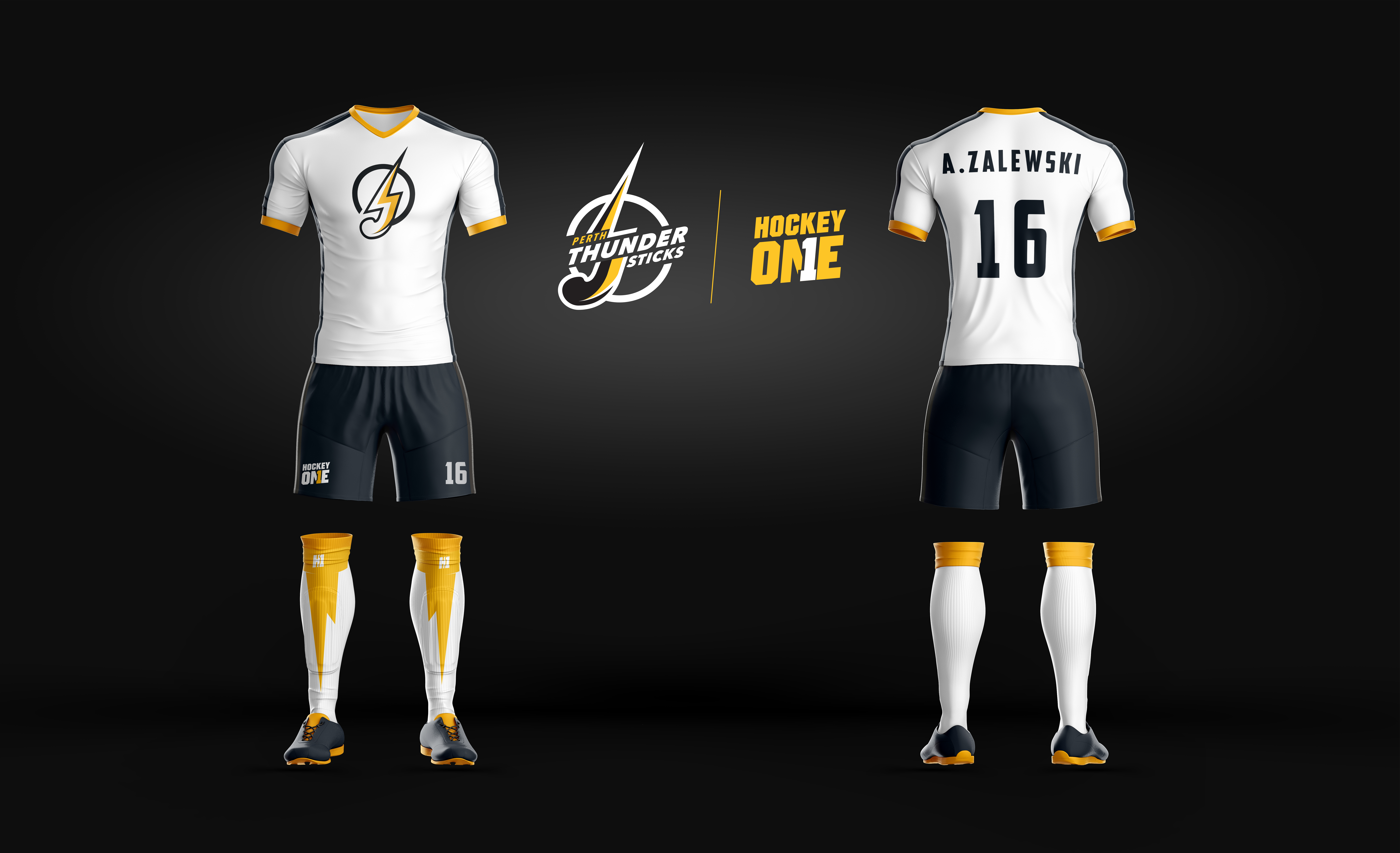 Perth Thundersticks men's uniform